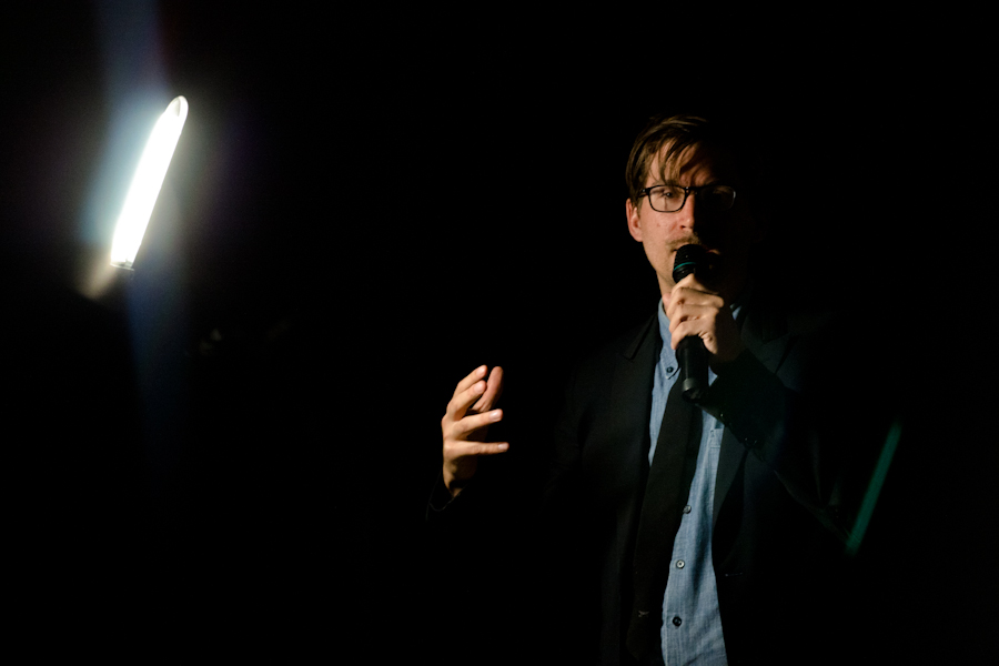 Jon Rafman